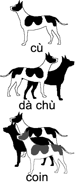 1, 2, 3 dogs – in Scottish Gaelic cù, dà chù, trì coin.